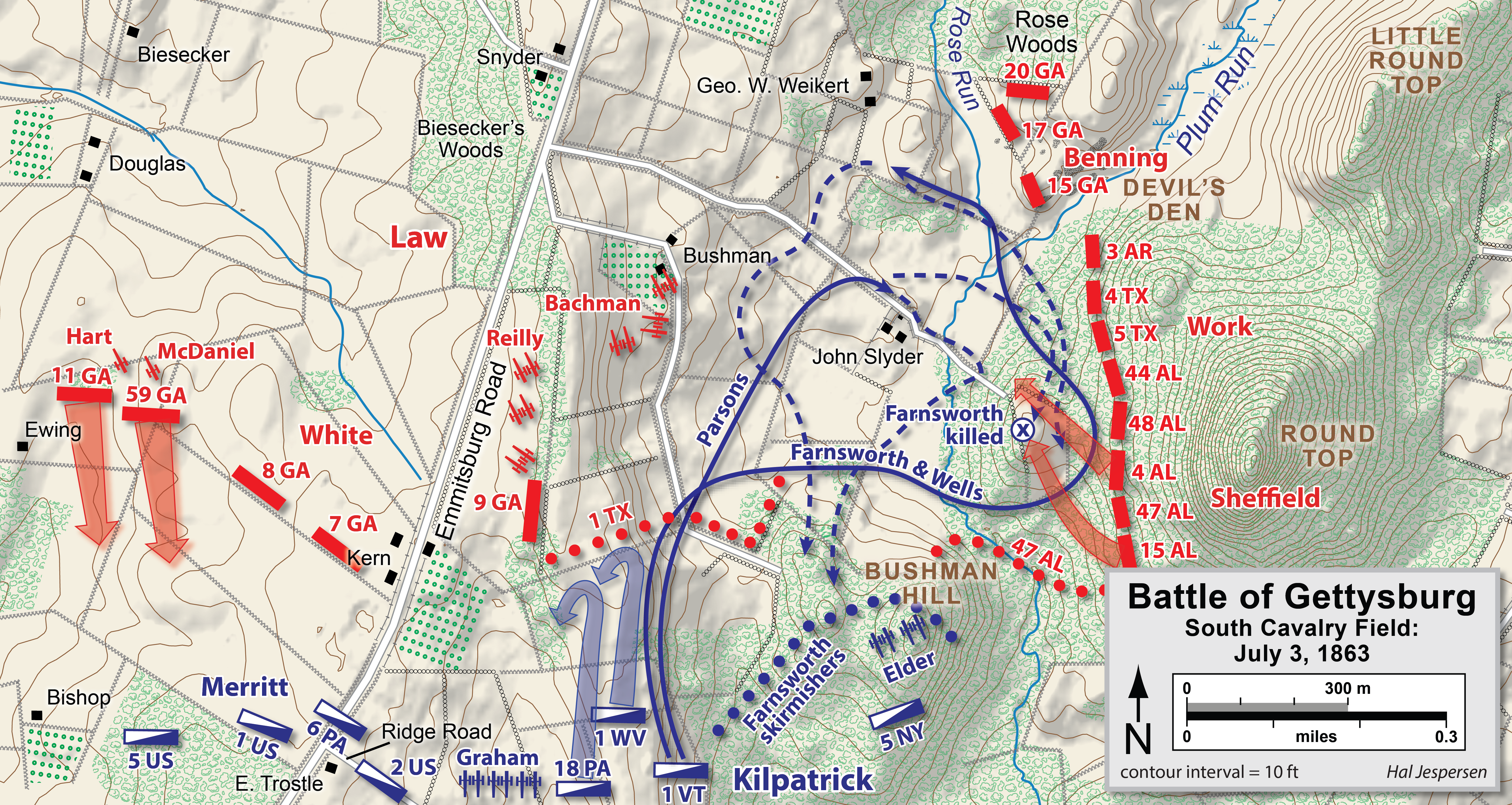 Map of actions in the Battle of Gettysburg, third day, South Cavalry Field. Drawn by Hal Jespersen in Macromedia Freehand. Graphic source file is available at